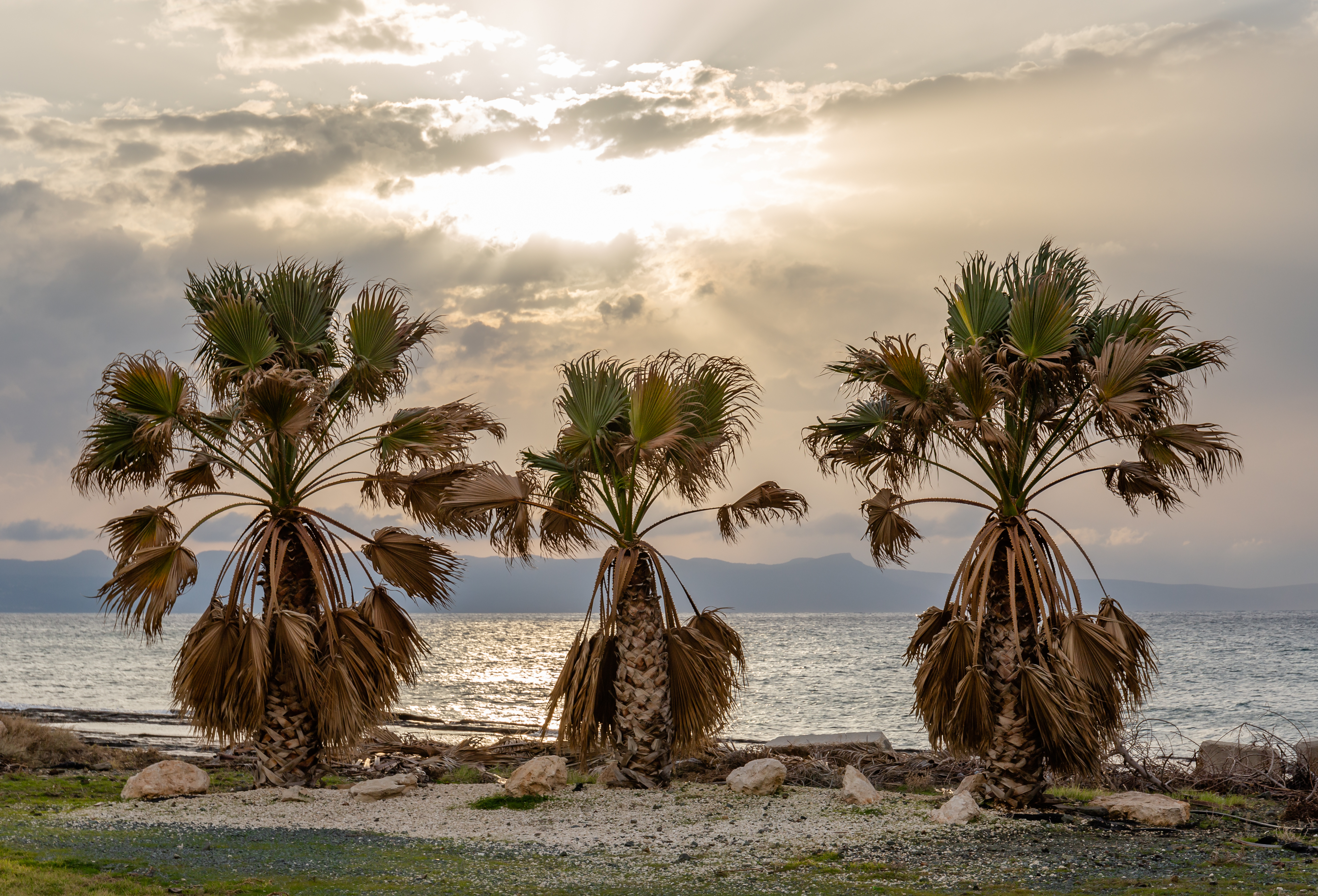 Three palm trees during the sunset, Ayia Marina Chrysochous, Paphos District, Cyprus